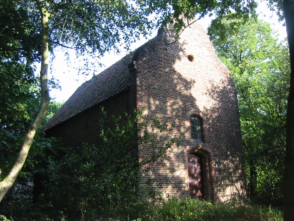 Chapel situated in Ven-Zelderheide, Limburg, The Netherlands